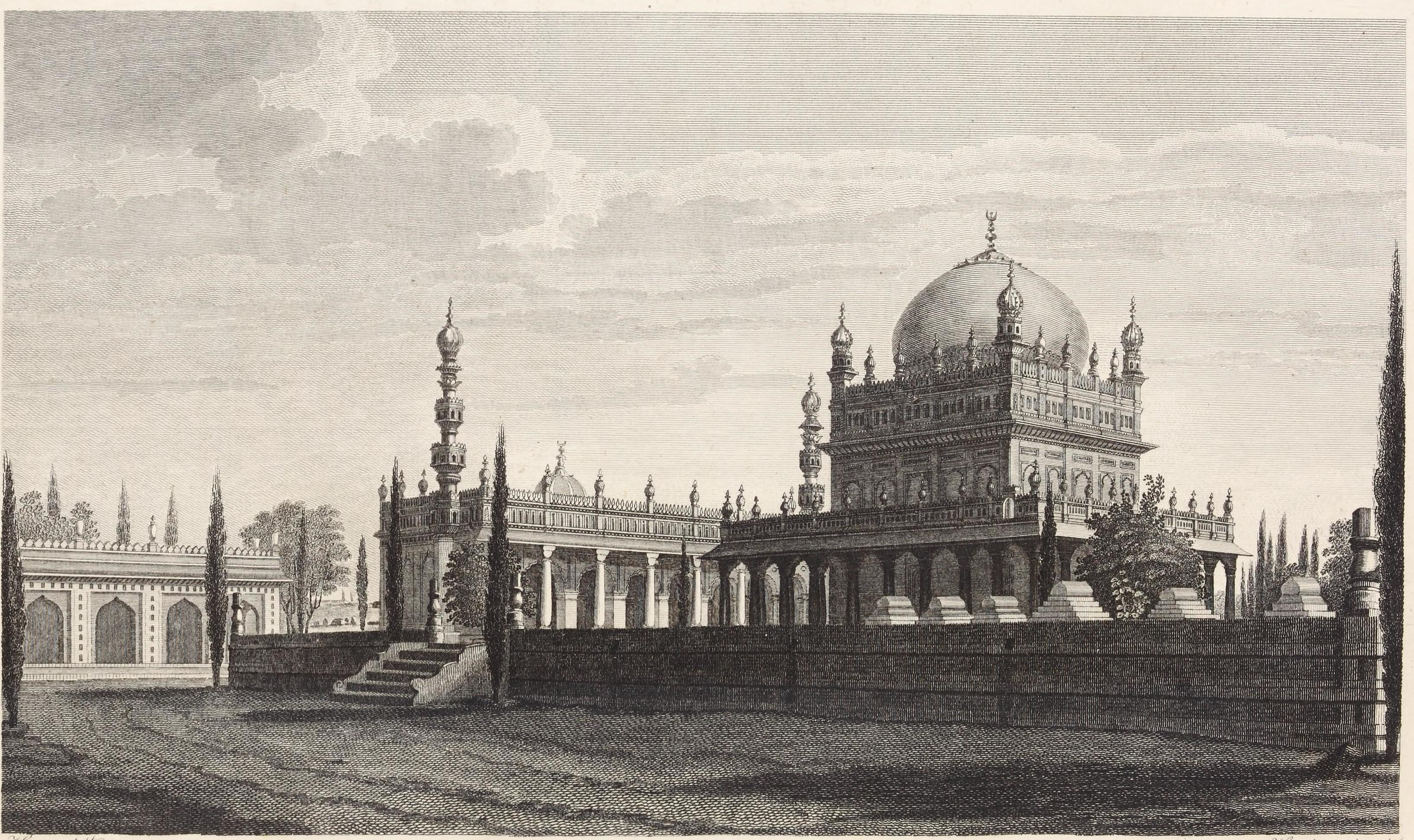 "Hyder's Tomb in the Loll Baug Garden"